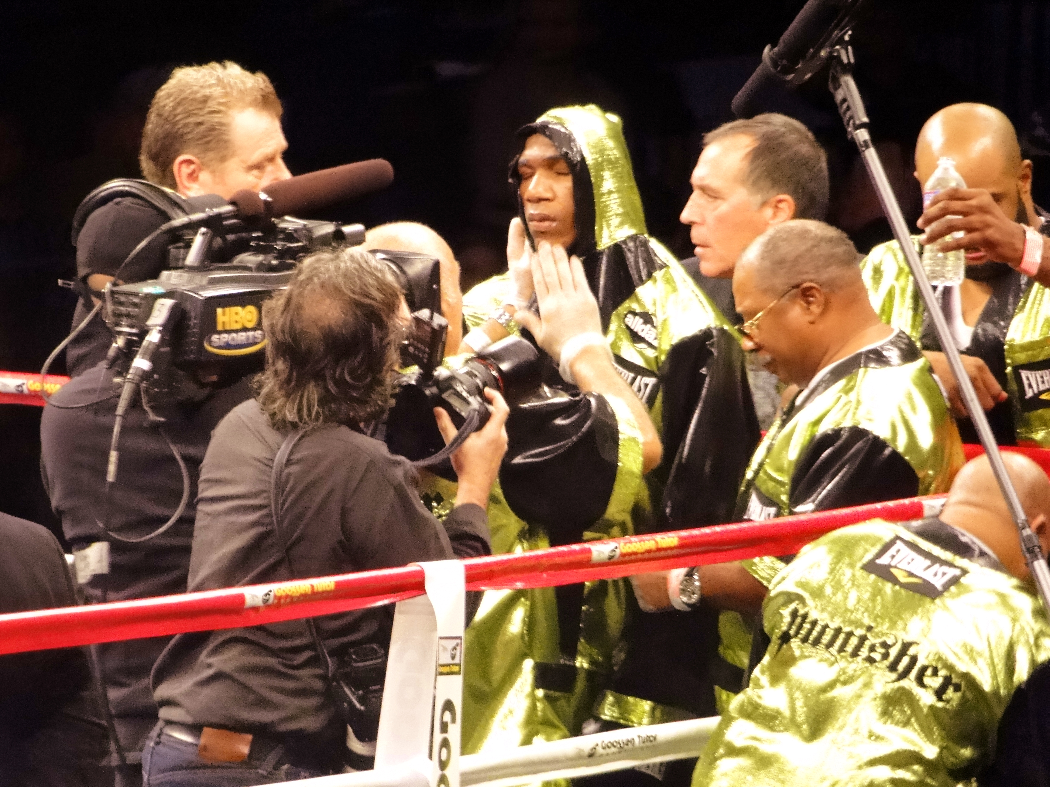 Paul Williams' team and HBO camera before the fight against Sergio Gabriel Martínez at the Boardwalk Hall on November 20, 2010.